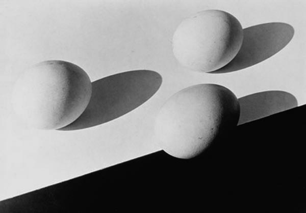 Eier